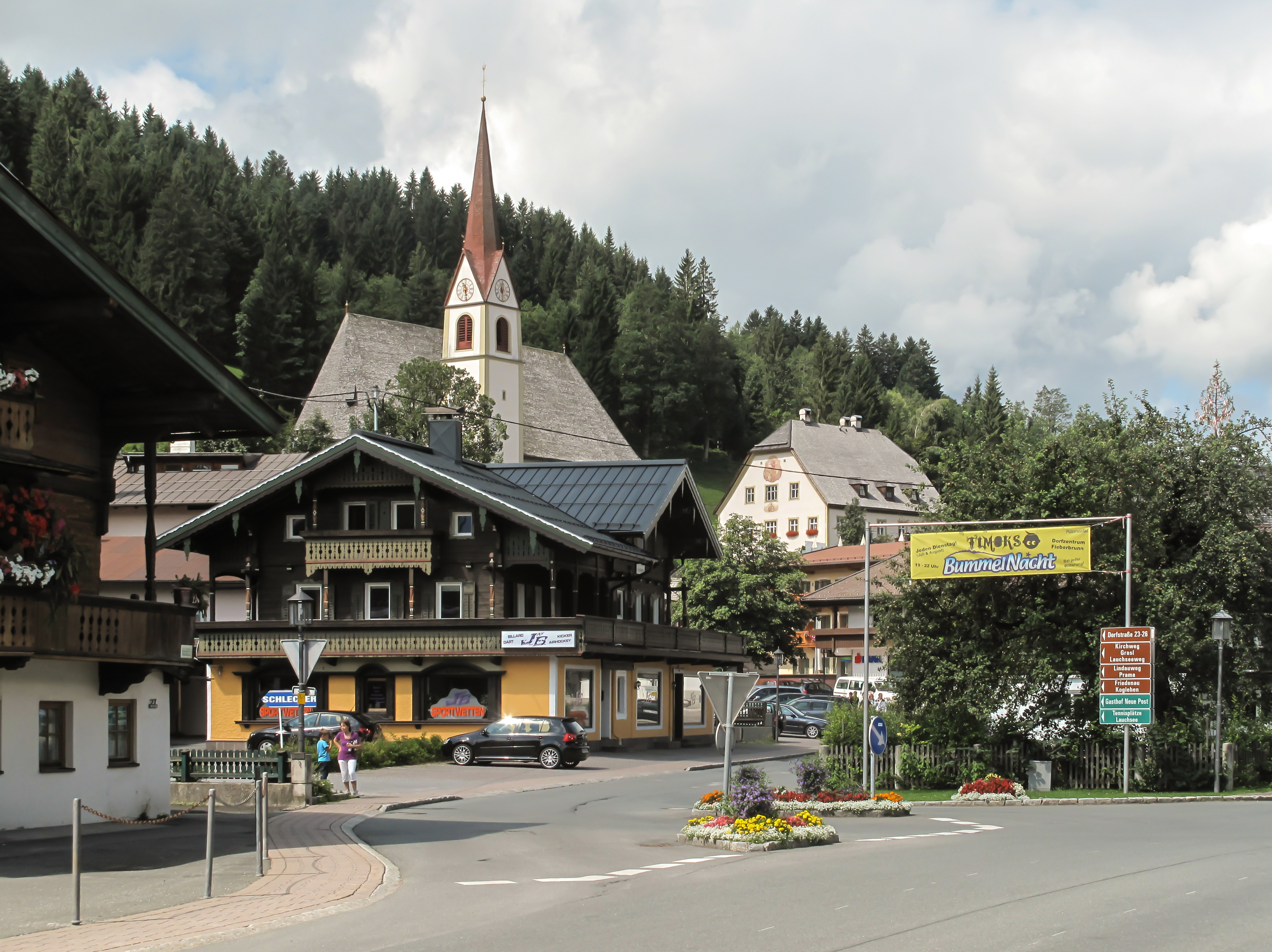 Fieberbrunn, church (Katholische Pfarrkirche hll Primus und Felizian) in a street